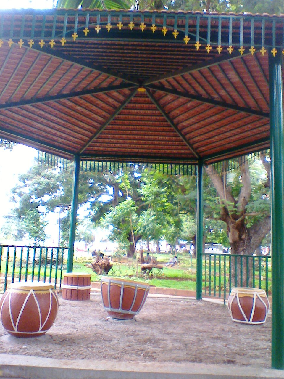 Chamarajapuram, Mysore, India.